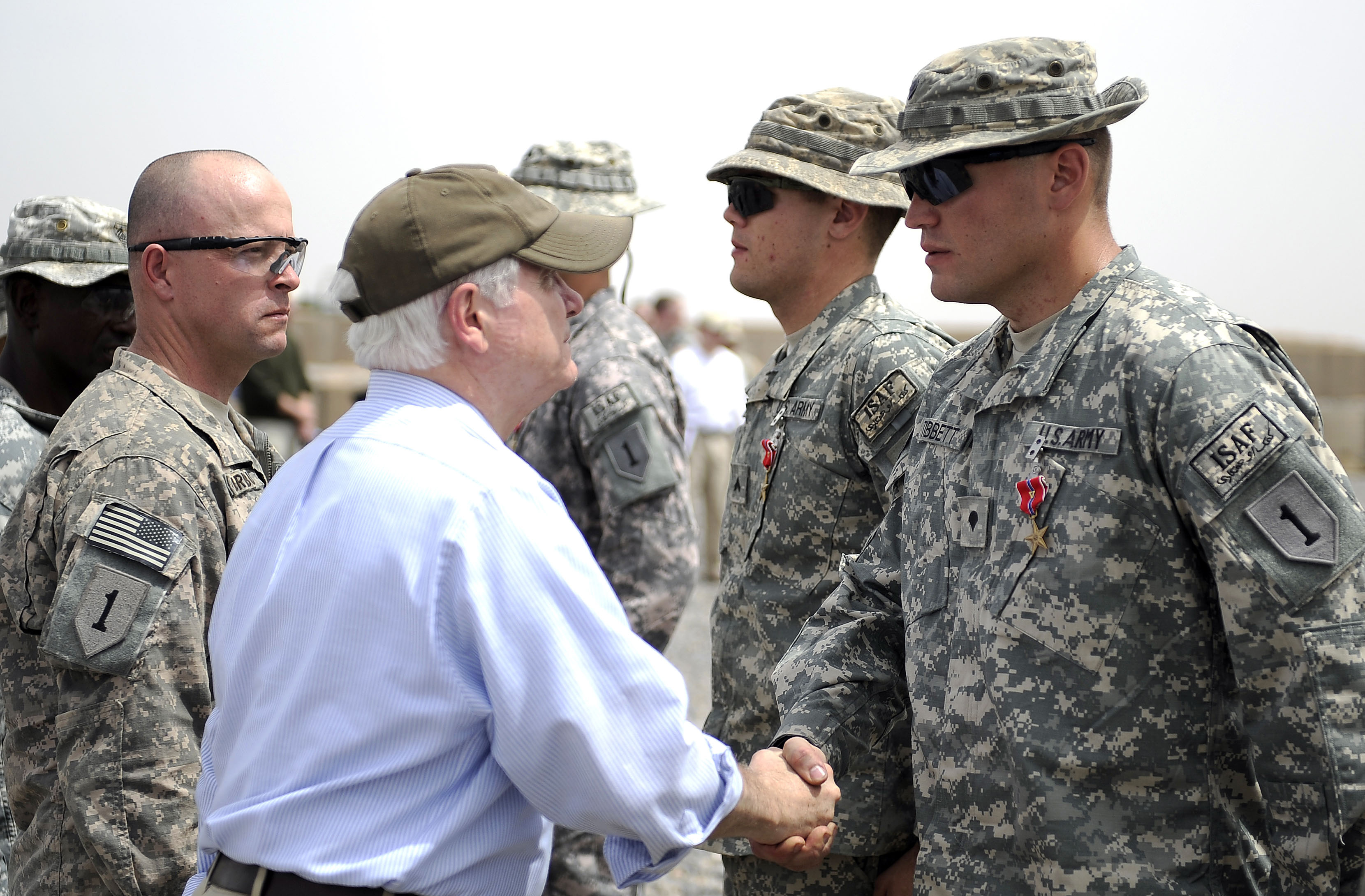 Secretary of Defense Robert M. Gates presents Bronze Star Awards with Valor to soldiers deployed to Forward Operating Base Ramrod, Afghanistan, during a trip to southwest Asia on May 7, 2009. DoD photo by Master Sgt. Jerry Morrison, U.S. Air Force. (Released) 090507-F-6655M-958.jpg